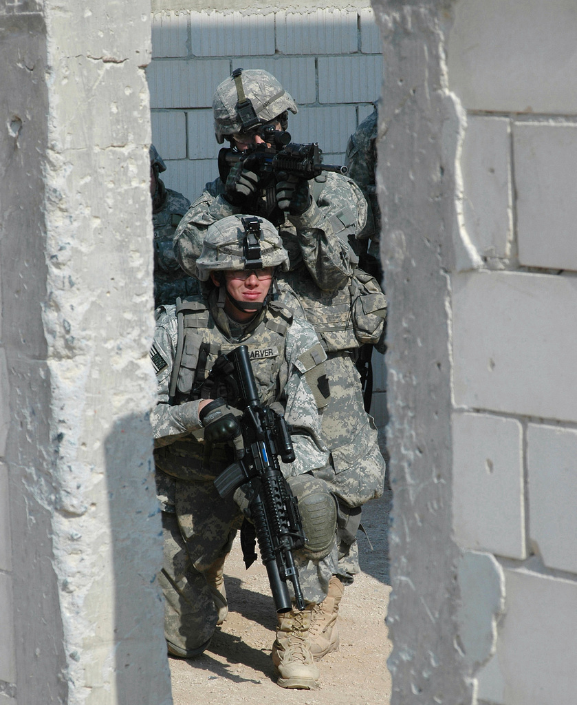 PSD 56th Stryker Brigade Combat Team, Kuwait Members of the Protective Services Detachment, 56th Stryker brigade, conduct urban operations training at Camp Buehring, Kuwait prior to moving to Iraq.